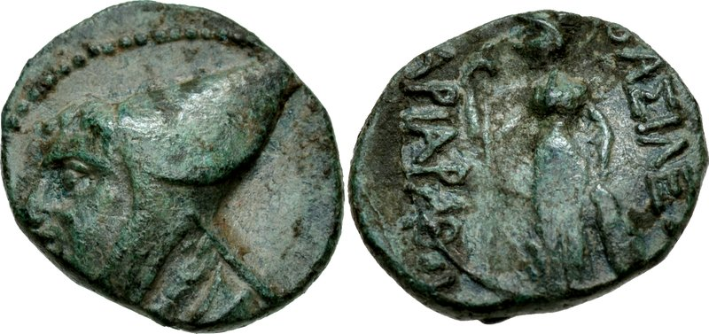 KINGS of CAPPADOCIA. Ariarathes II. Circa 301-280 BC